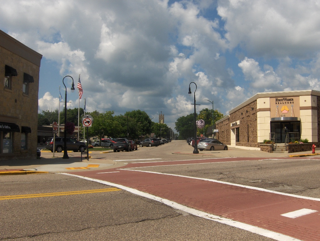 Prairie Du Sac, Wisconsin